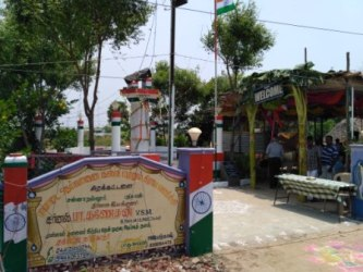 Inspirational Park அகத்தூண்டுதல் பூங்கா